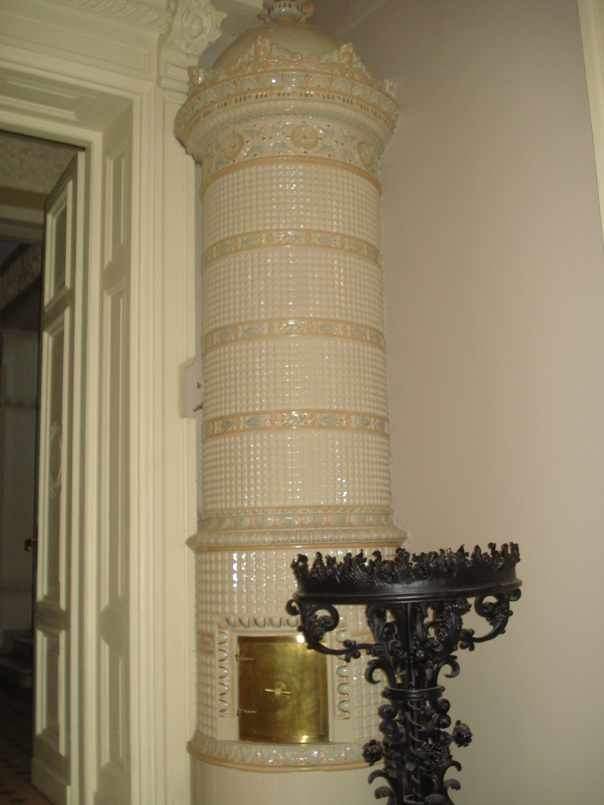 tiled stove in the palace of the Vileišis family (now Institute of Lithuanian Literature and Folklore)